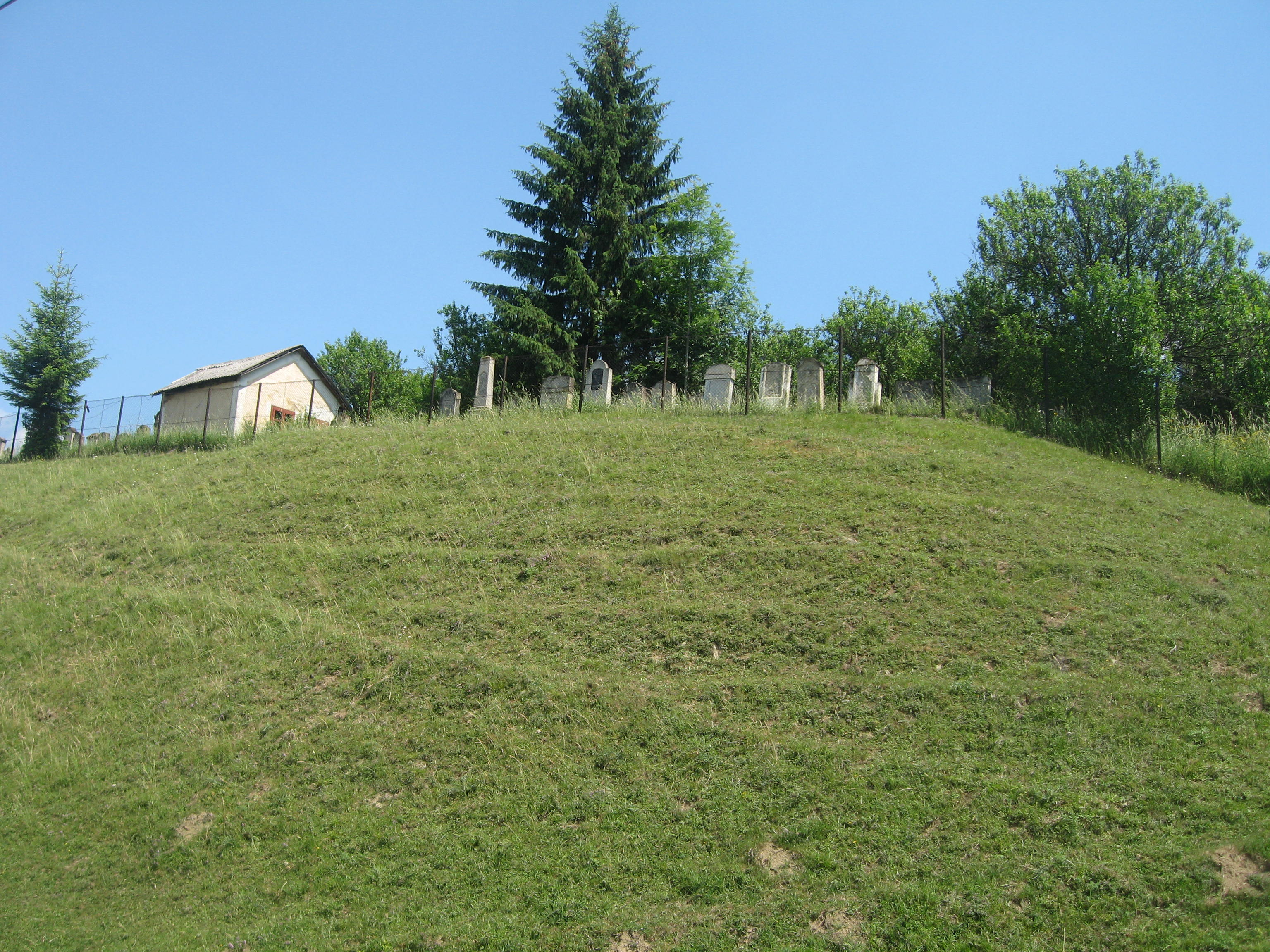 Jewish Cemetery in Gura Humorului, Suceava County, Romania